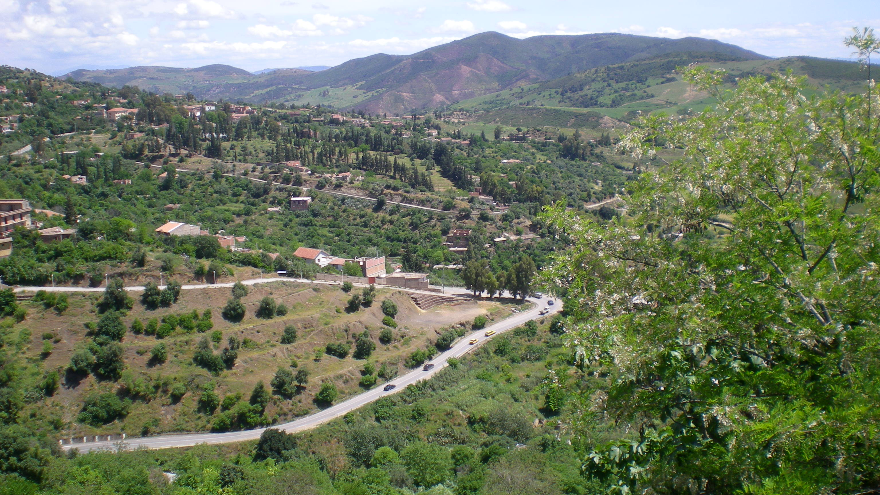 Mount Zaccar- Miliana - Dahra - Algeria